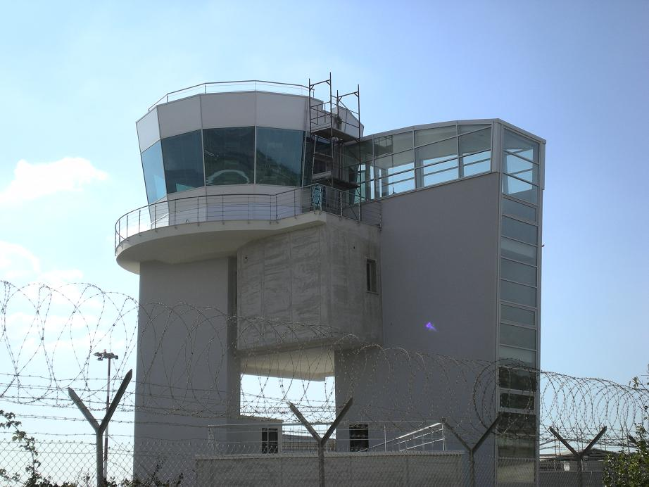 Control tower of the new Ragusa / Comiso airport